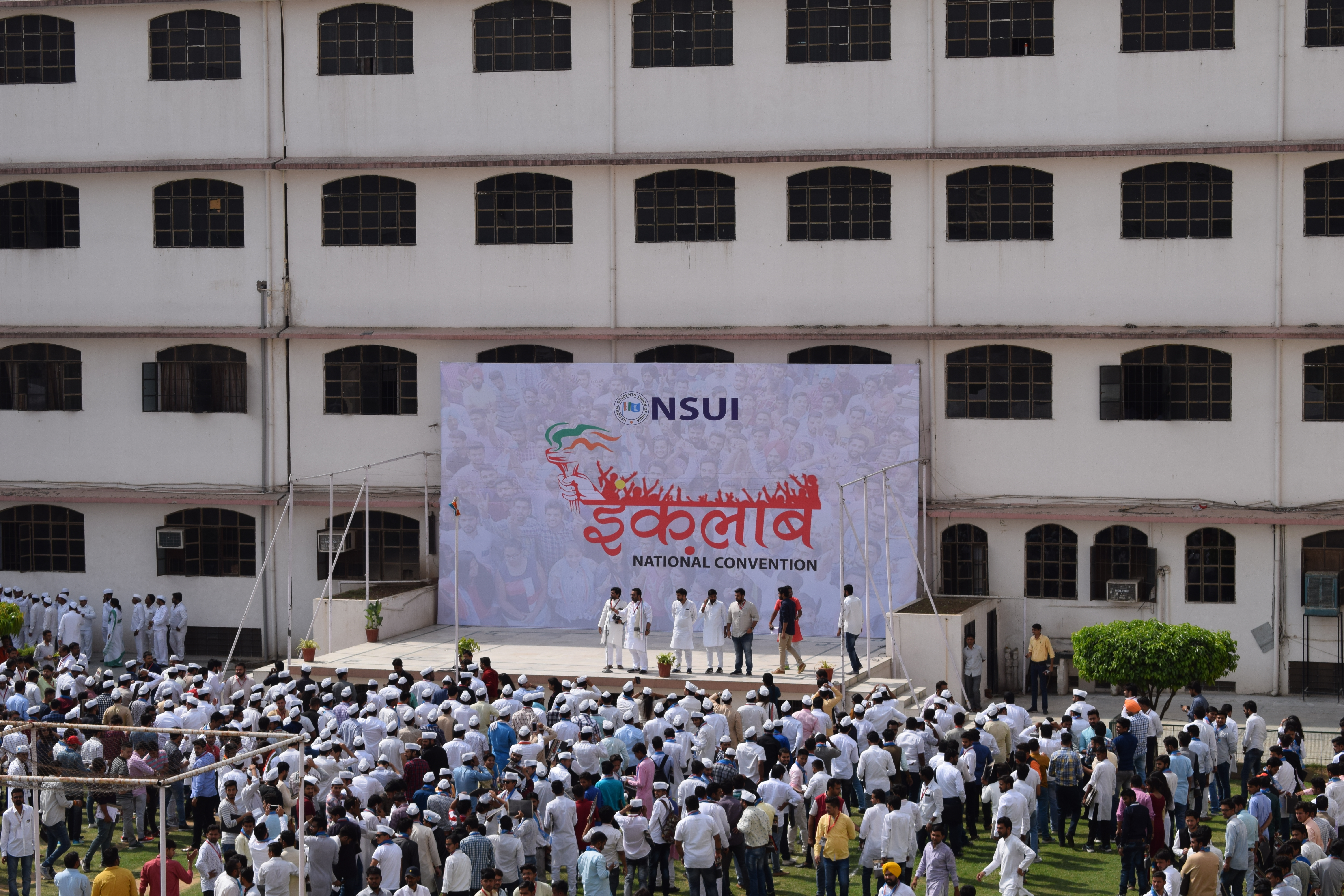 Inquilab is the first-of-its-kind conference, as the NSUI is calling all its elected office bearers starting from college units to the national team. This is Rahul ji’s brain child and the aim of the conference is to bring a revolutionary change in the organisation